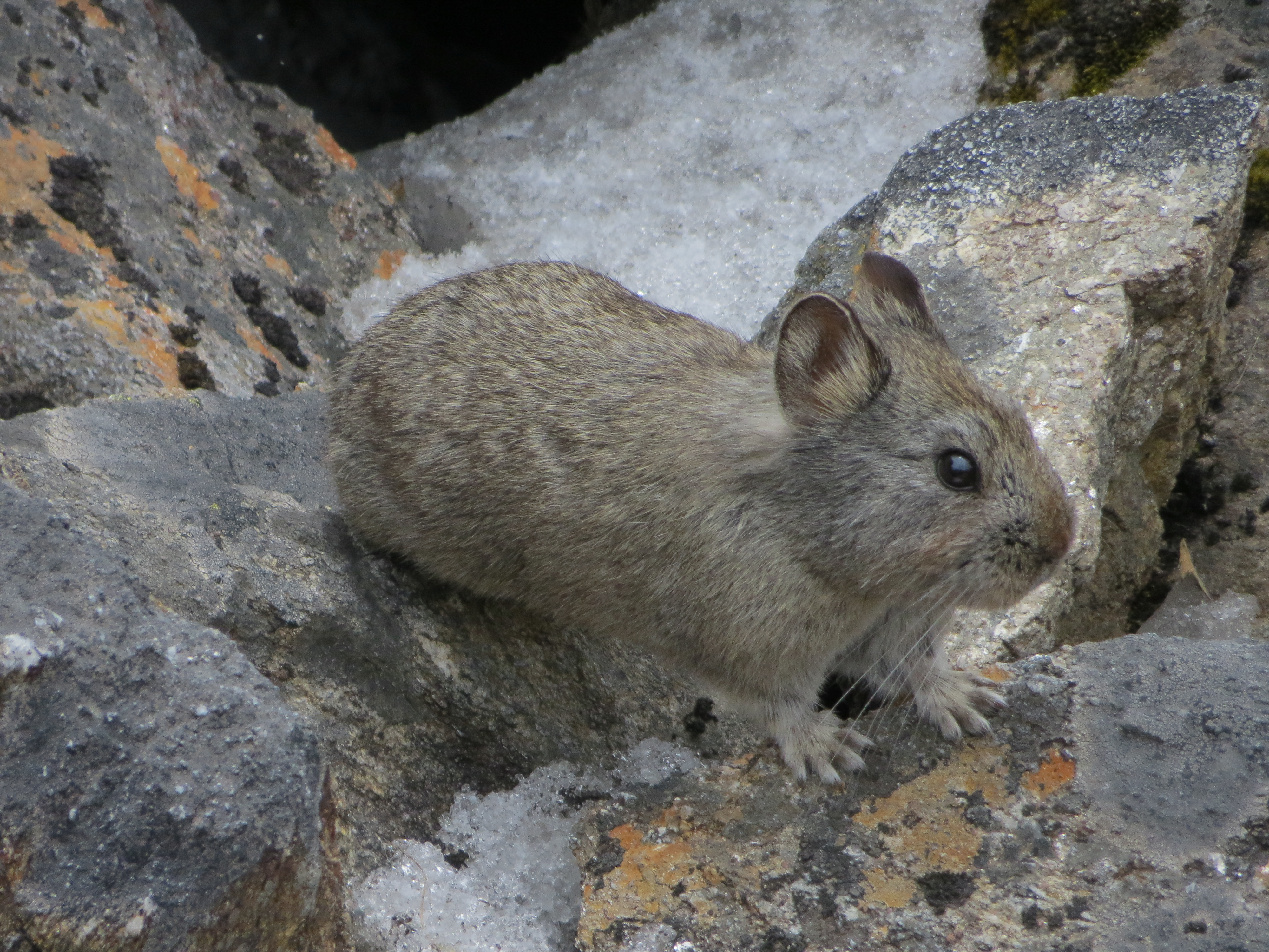 Picture of a Himalayan Pika taken near Gosaikund in Langtang National Park, Nepal. Camera: Canon PowerShot SX260 HS